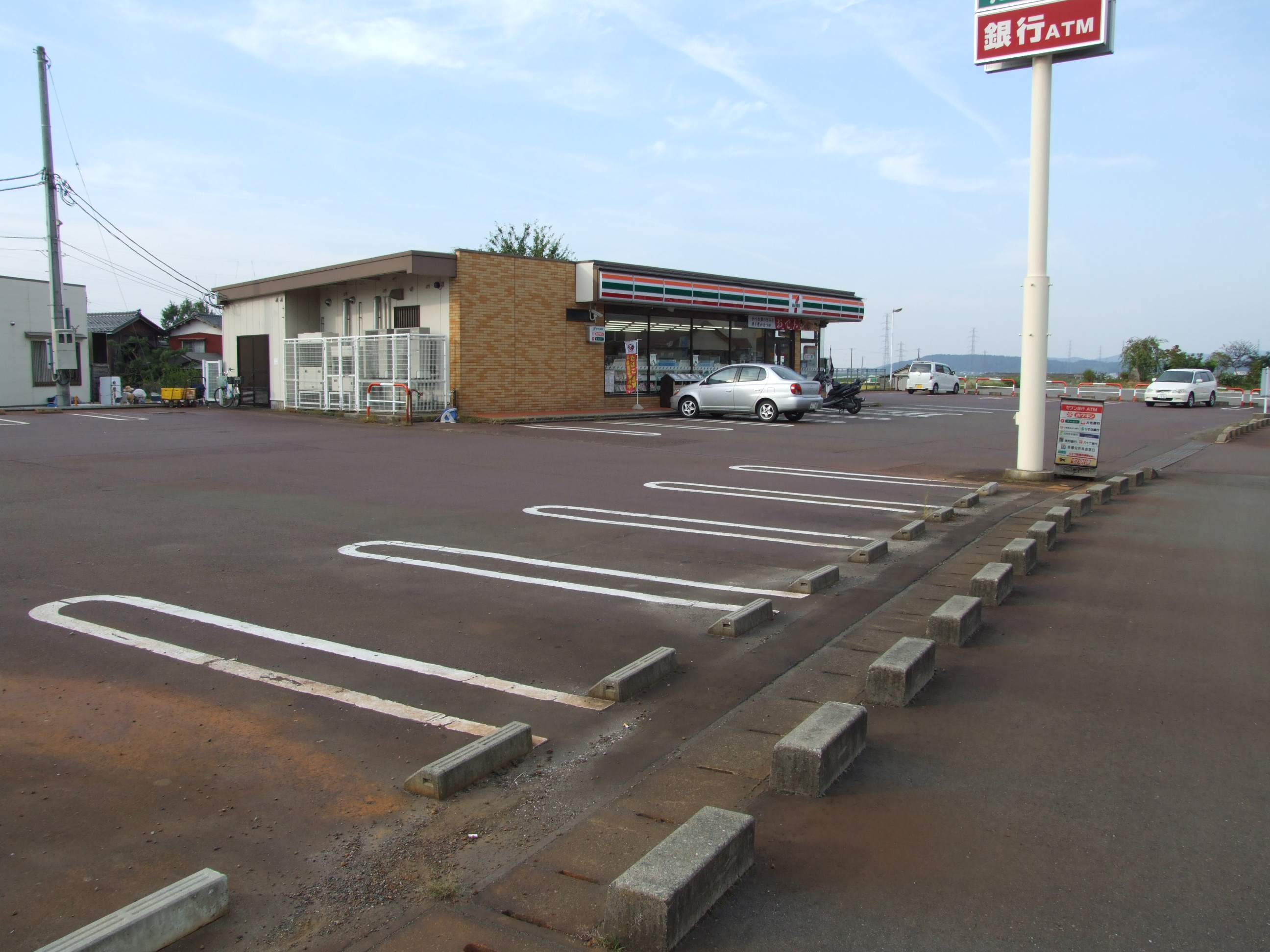 Remains of Urase Station Tochio Line in 2011